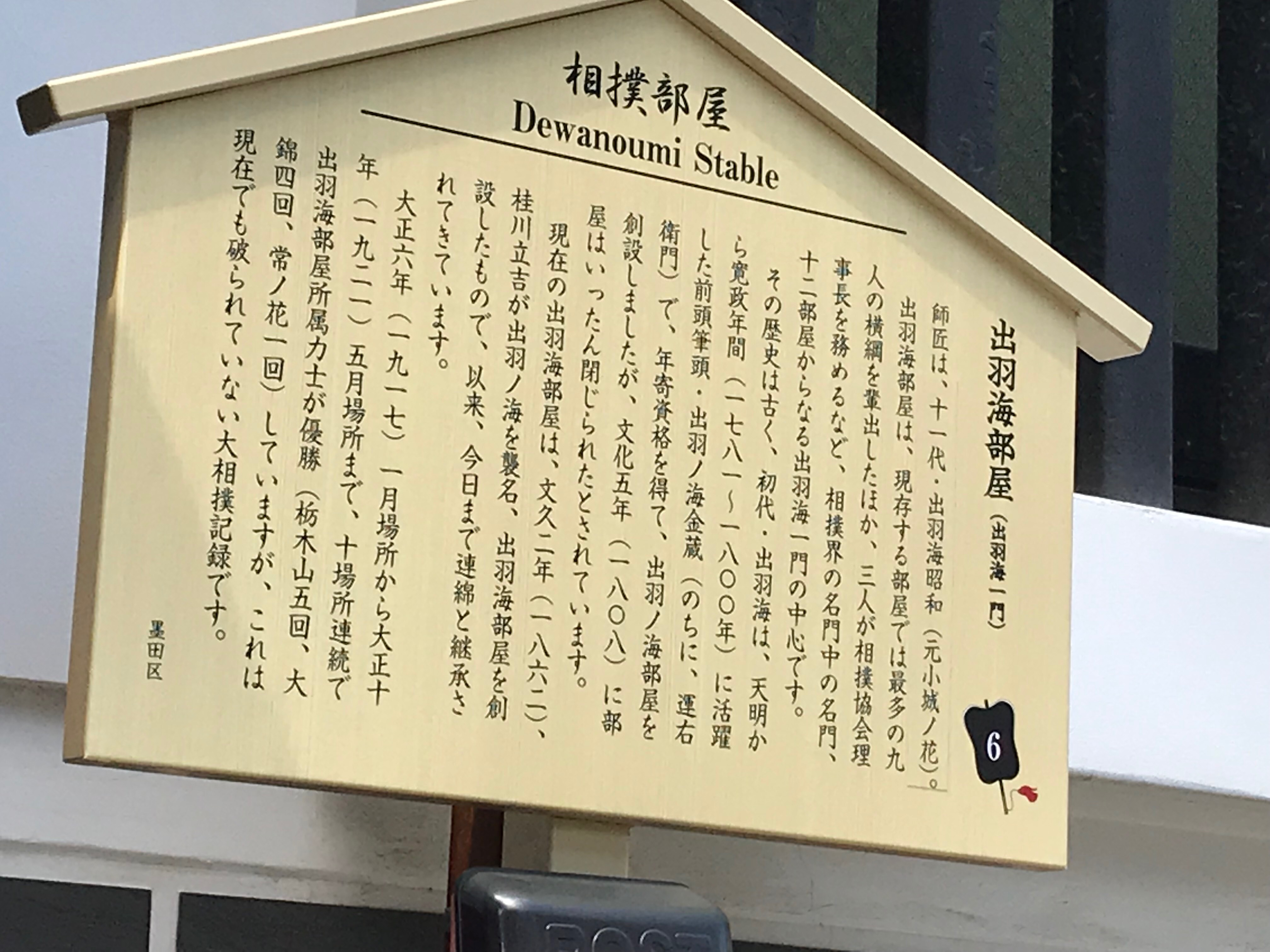 Description of Dewanoumi stable history